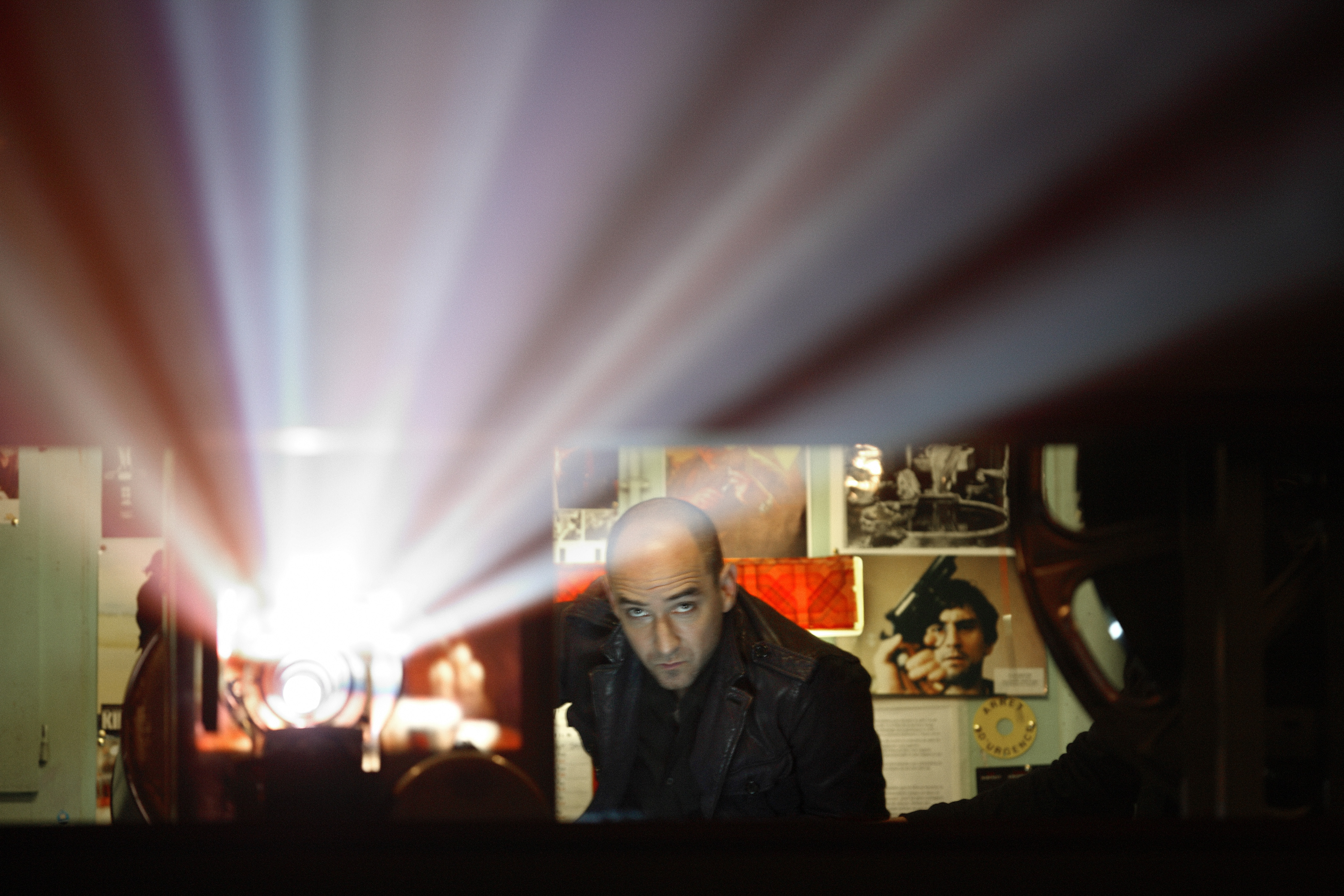 Sean Gullette in Stiletto magazine, 2008, from the feature "SEAN G: AN AMERICAN IN PARIS" Photos: Benoit Peverelli